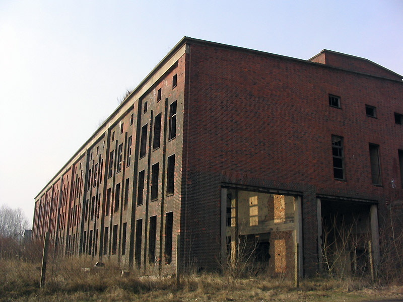 View onto the oxygenium work II in Peenemünde.